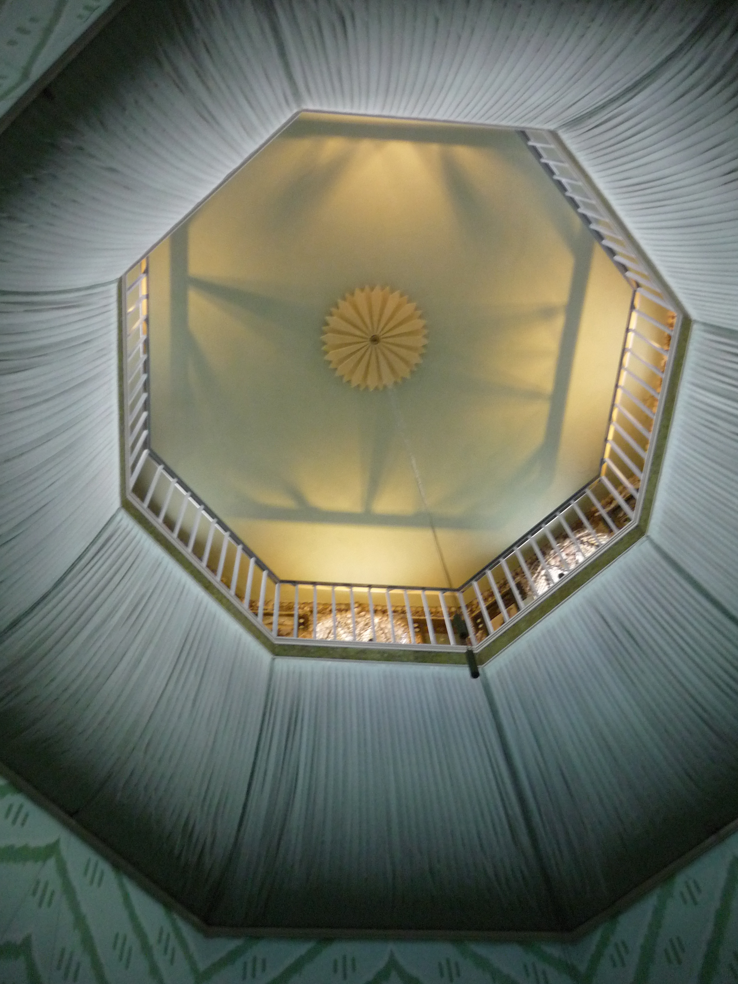 Ceiling of the central hall, looking up to the lantern